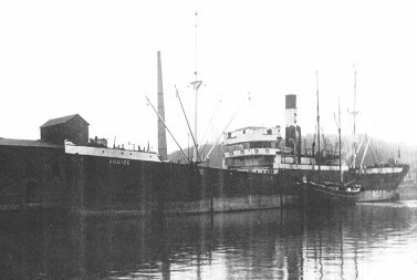 Ship Vodice